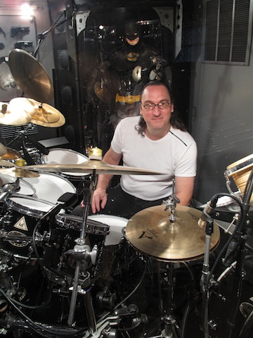 Jay Dittamo at the Drums